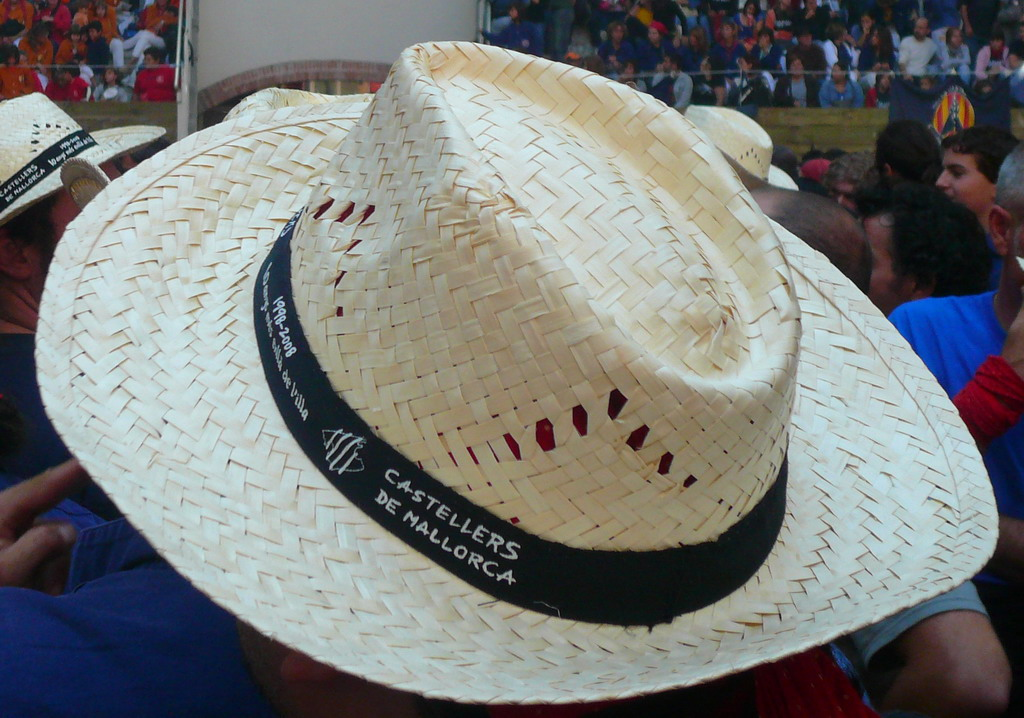 Hat from Castellers de Mallorca